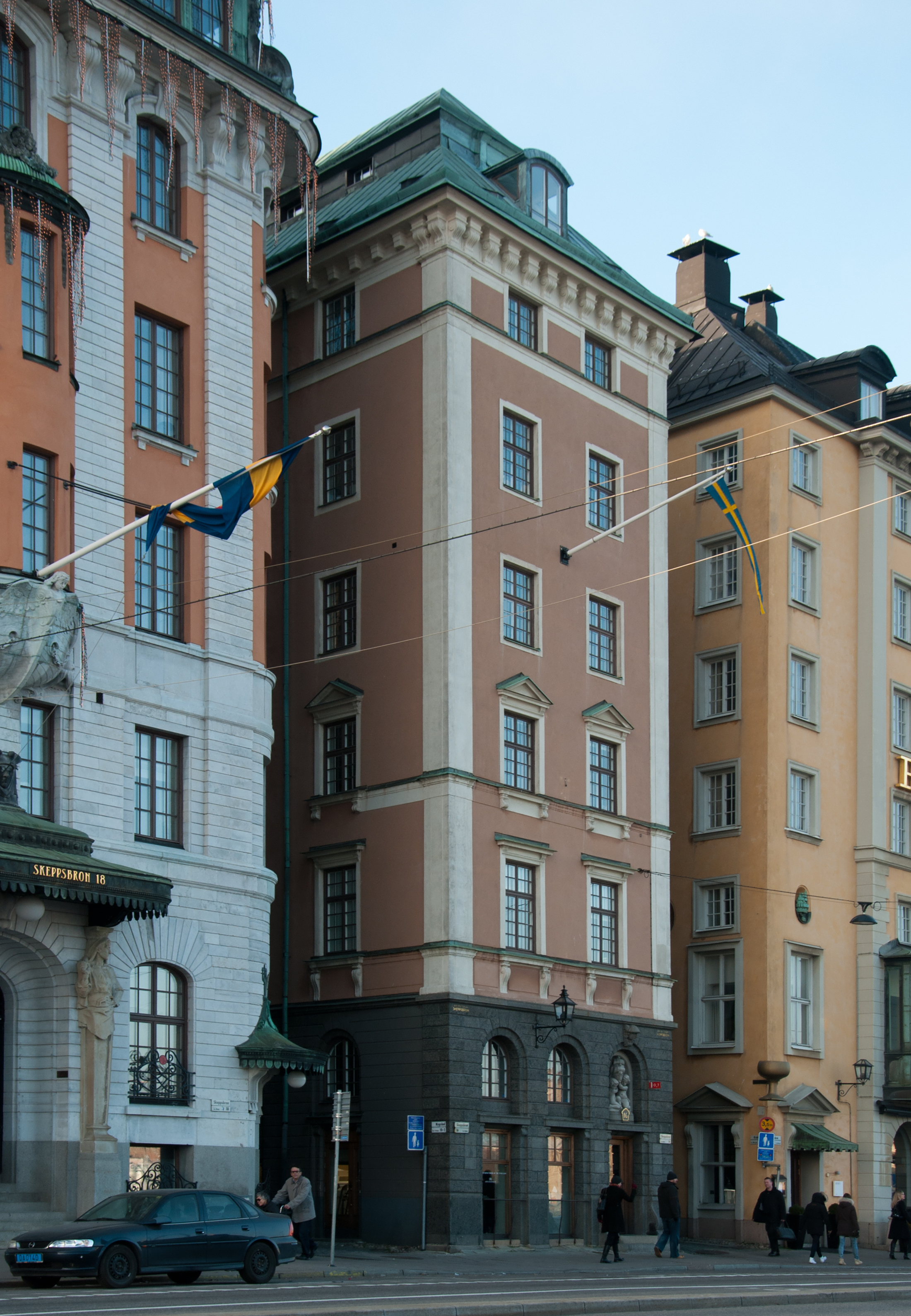 Sutthoffska palatse (Sutthoff Palace), November 2011.